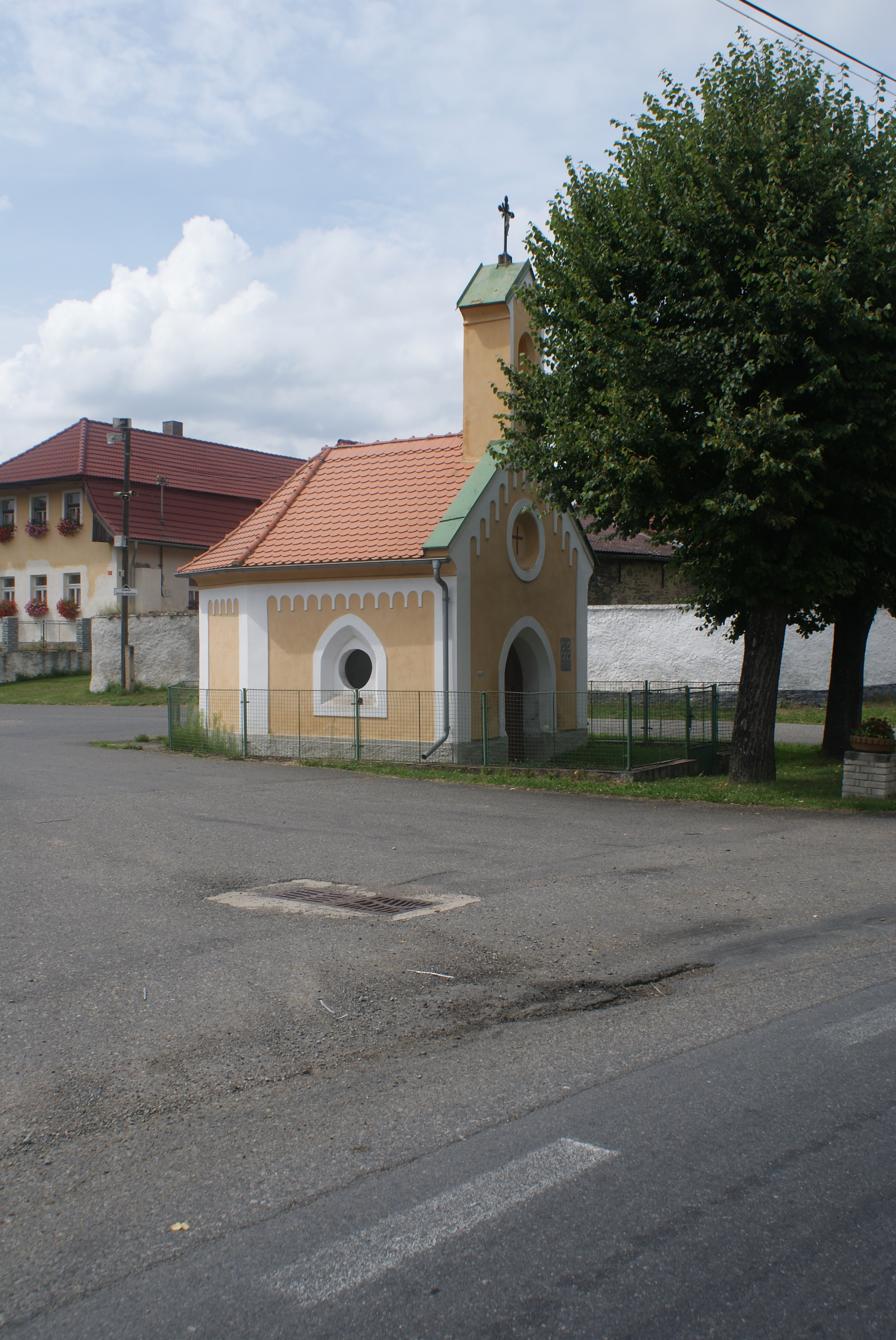 Chapel in Hněvkov, part of Blatná, Strakonice District, South Bohemian Region, the Czech Republic